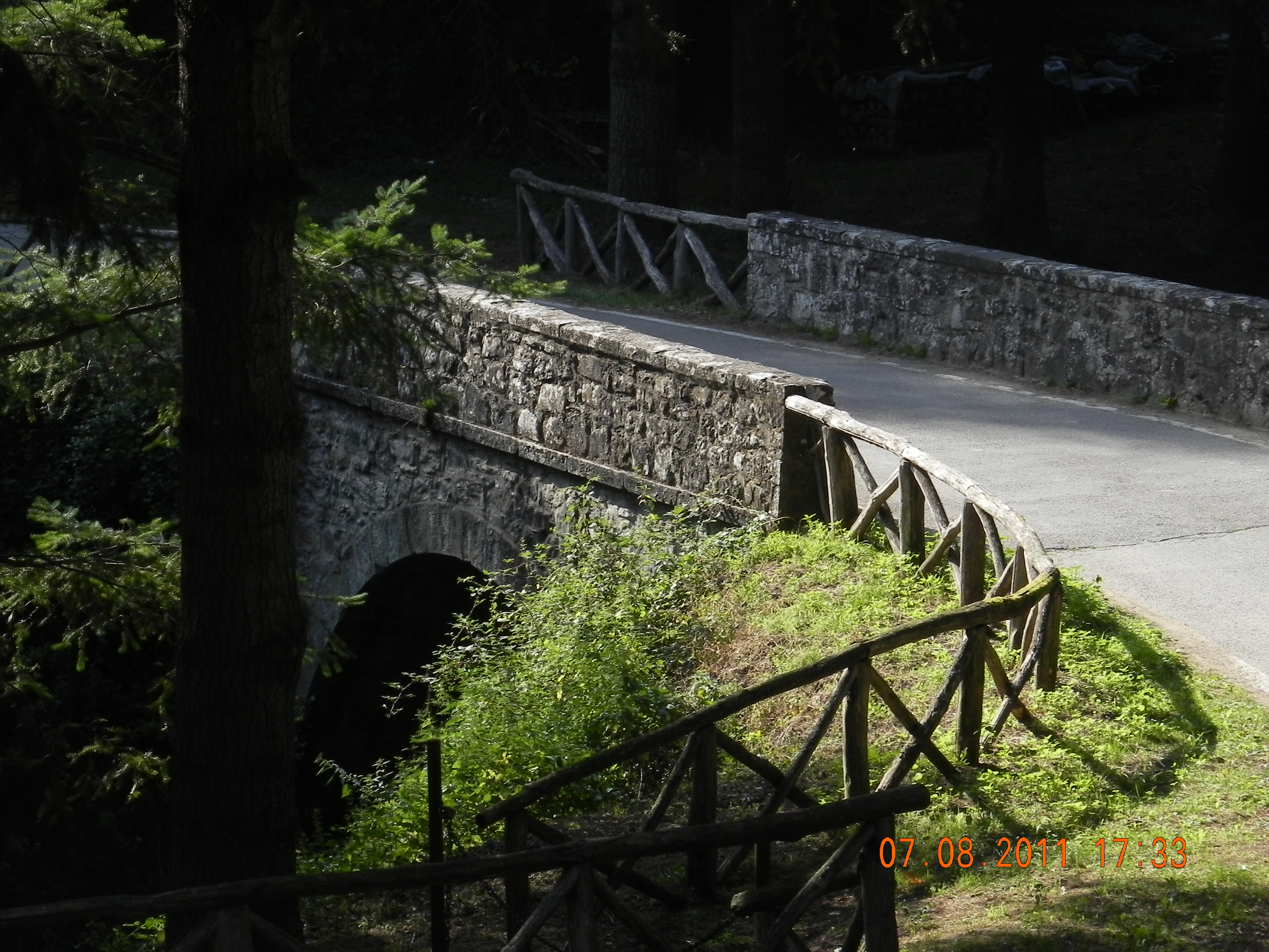 ponte di pratovalle